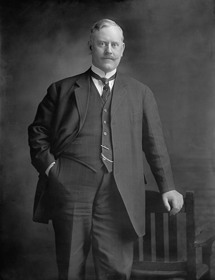 James Joyce, congressman from Ohio.